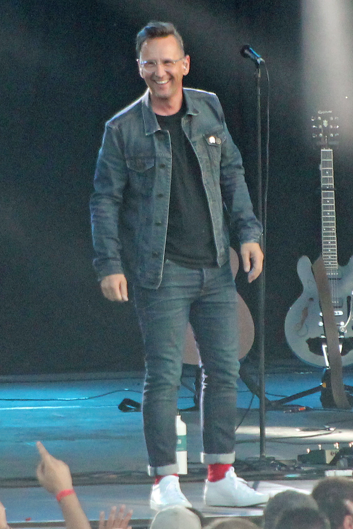 Martin Smith performing at Big Church Day Out (South) at Wiston House, West Sussex, UK in May 2018.